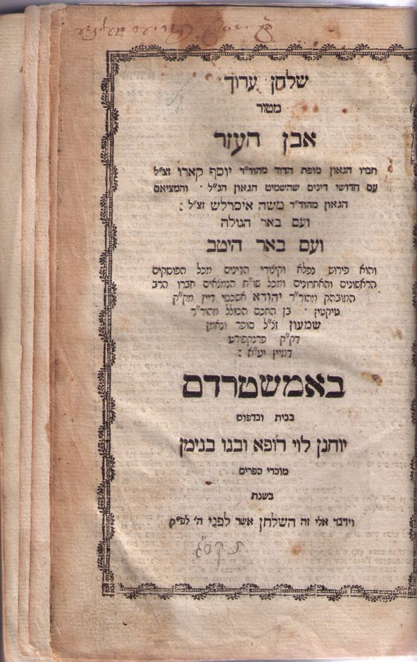 Title page of Shulchan Aruch, Even Ha'ezer, published in Amsterdam, 1803